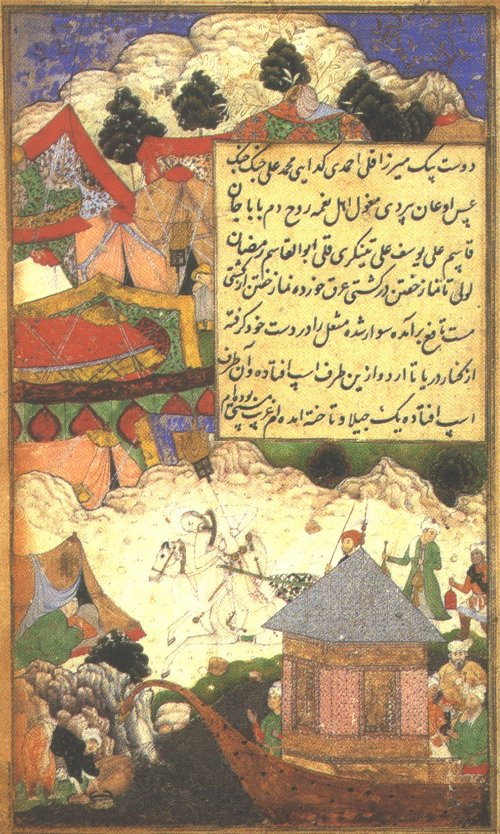 The "Memoirs of Babur" or Baburnama are the work of the great-great-great-grandson of Timur (Tamerlane), Zahiruddin Muhammad Babur (1483-1530). The Baburnama tells the tale of the prince's struggle first to assert and defend his claim to the throne of Samarkand and the region of the Fergana Valley. After being driven out of Samarkand in 1501 by the Uzbek Shaibanids, he ultimately sought greener pastures, first in Kabul and then in northern India, where his descendants were the Moghul (Mughal) dynasty ruling in Delhi until 1858. The miniatures are from an illustrated copy of the Baburnama prepared for the author's grandson, the Mughal Emperor Akbar. It is worth remembering that the miniatures reflect the culture of the court at Delhi; hence, for example, the architecture of Central Asian cities resembles the architecture of Mughal India. Nonetheless, these illustrations are important as evidence of the tradition of exquisite miniature painting which developed at the court of Timur and his successors. Timurid miniatures are among the greatest artistic achievements of the Islamic world in the fifteenth and sixteenth centuries. Illustrations of Mughals from the Baburnama